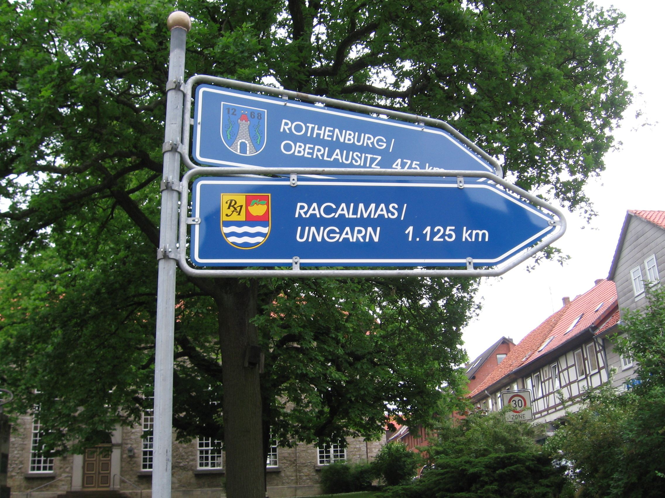 A sign in the German city Dransfeld showing that the city has Town twinnings with Rothenburg/Oberlausitz and Rácalmás (Hungary).